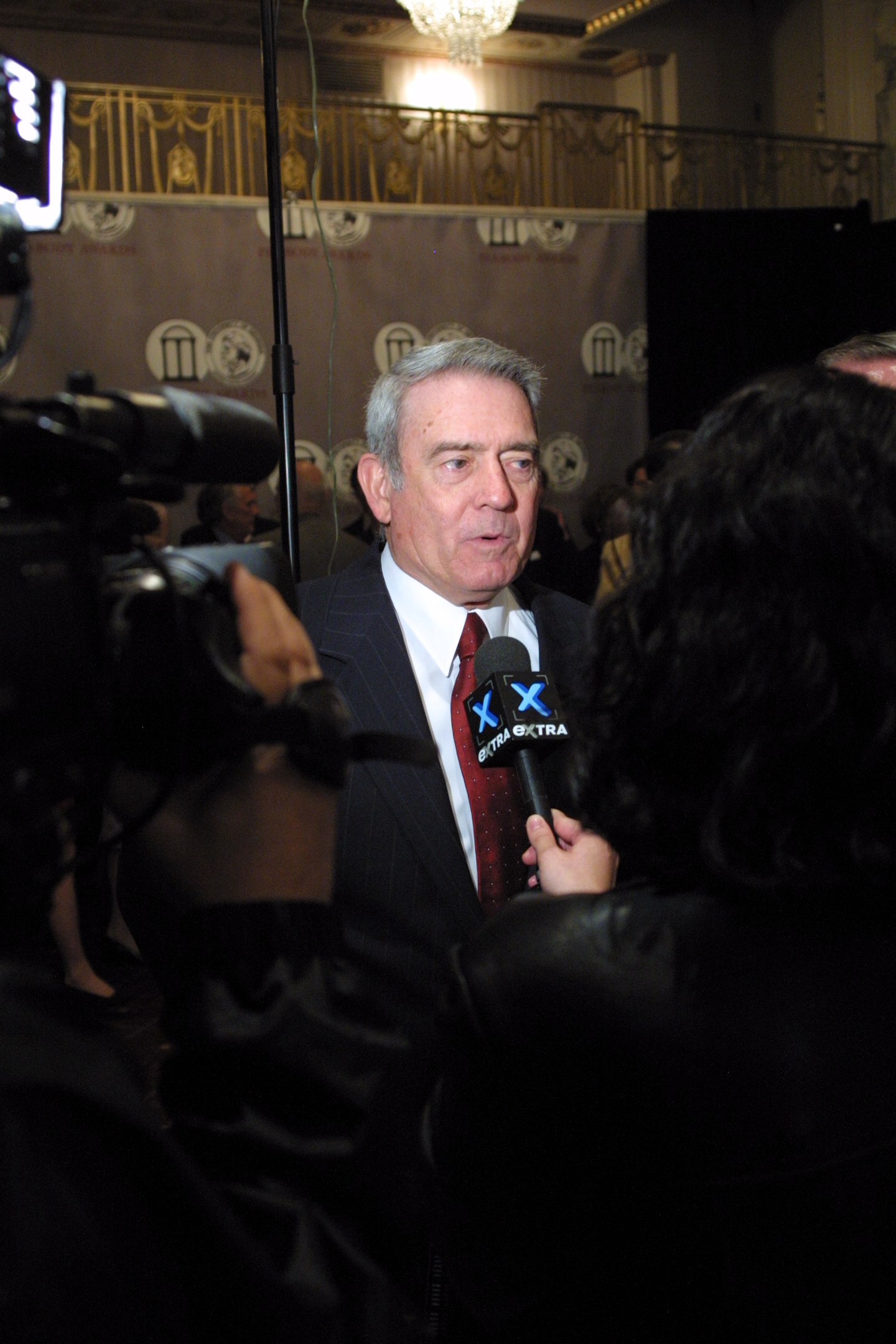 PHOTO CREDIT: ANDERS KRUSBERG / PEABODY AWARDS Dan Rather on 61st Annual Peabody Awards Luncheon Waldorf=Astoria Hotel May 20, 2002